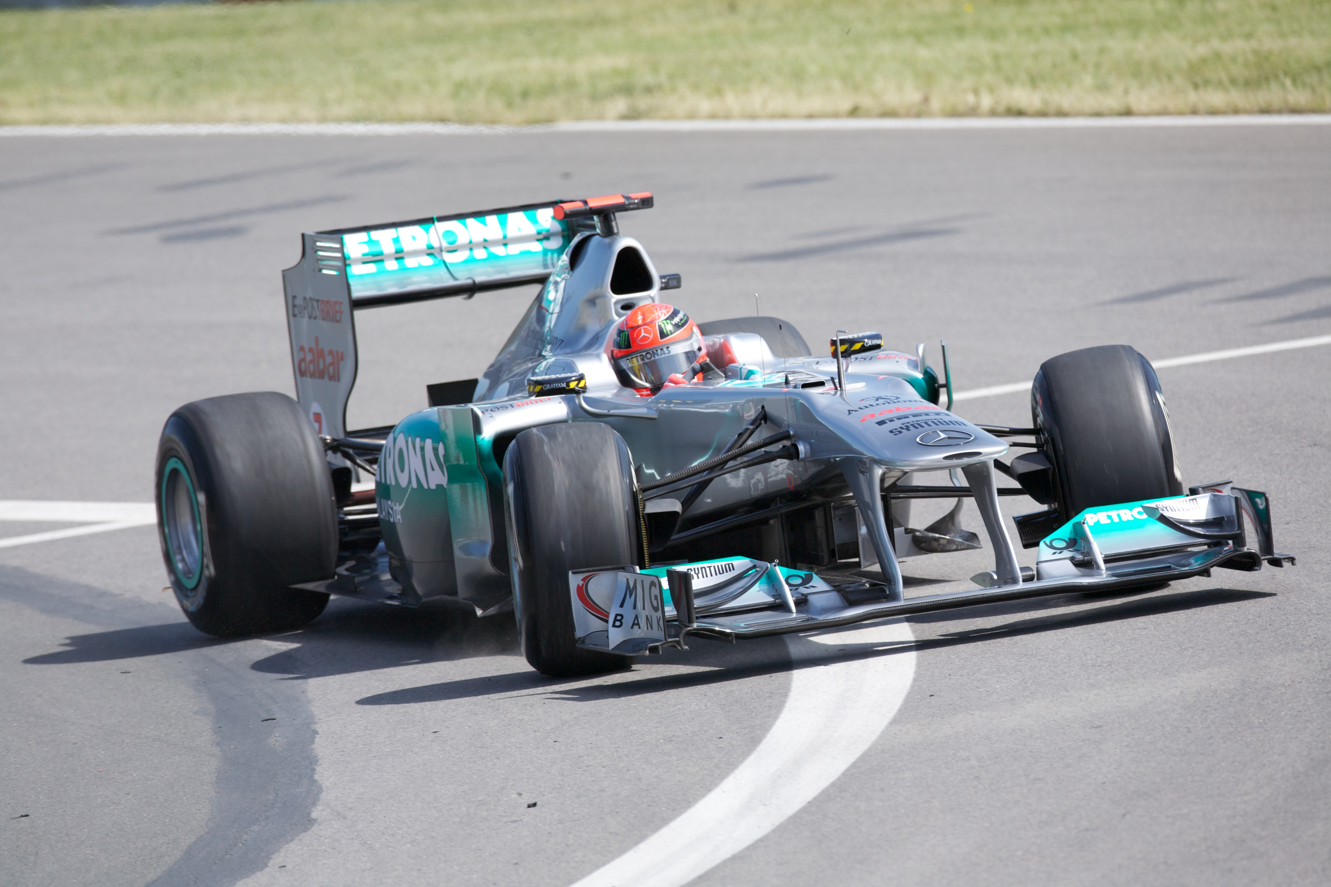 2011 Canadian Grand Prix